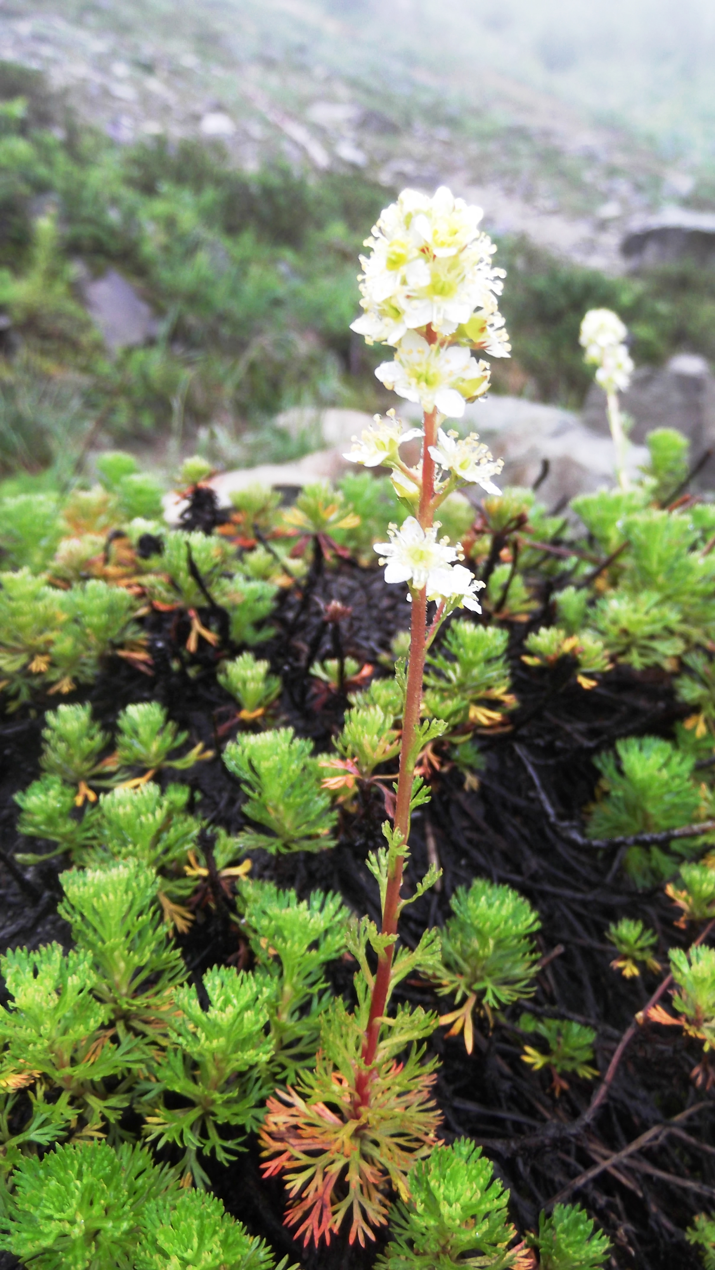 Luetkea pectinata (partridgefoot) Naches Peak Loop Trail about 1700 meters (5600 feet elevation) William O. Douglas Wilderness 12q3 606